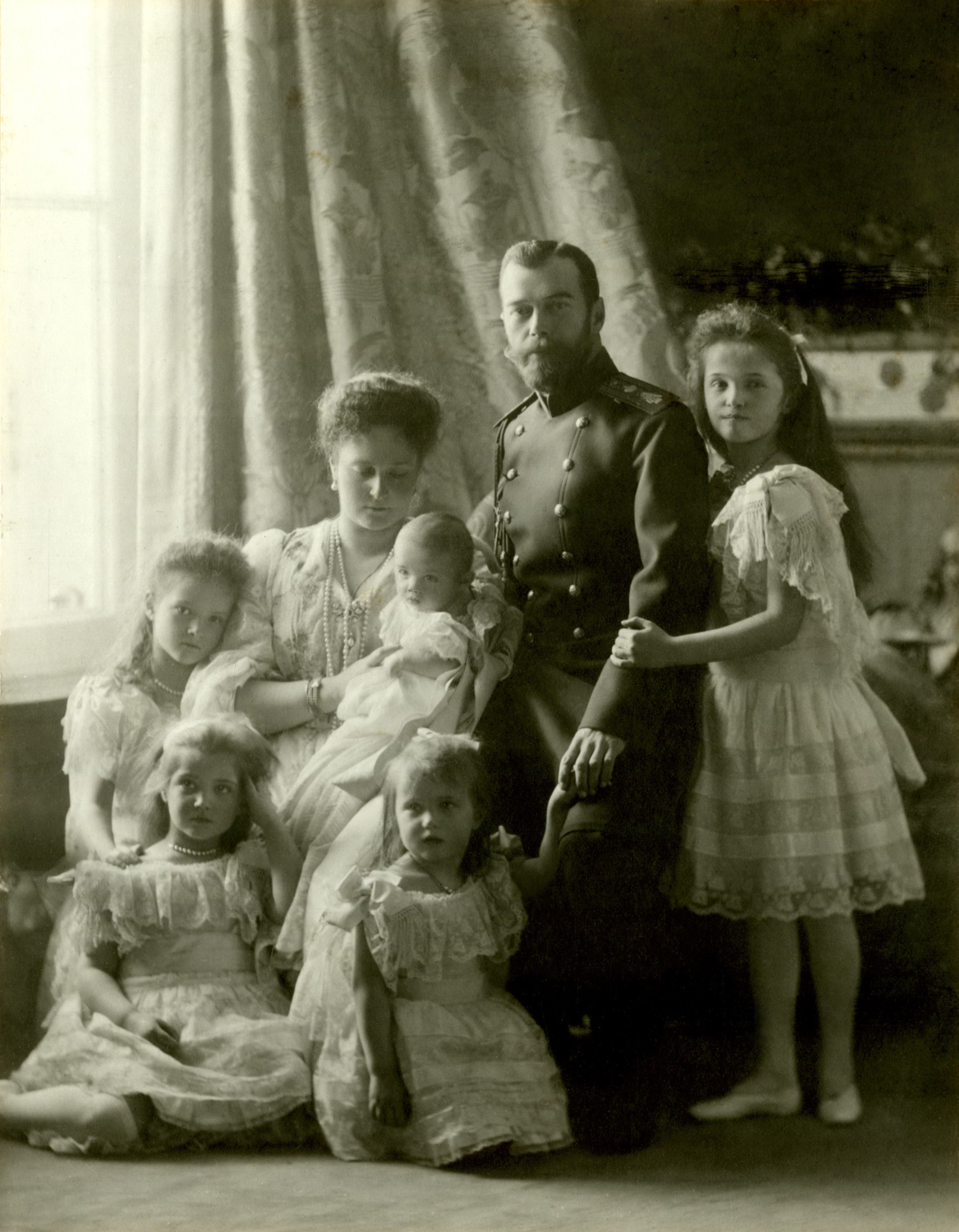 Nicholas II and family in a formal photograph, taken for the occasion of Tsarevich Alexei's Christening, c. 1904.